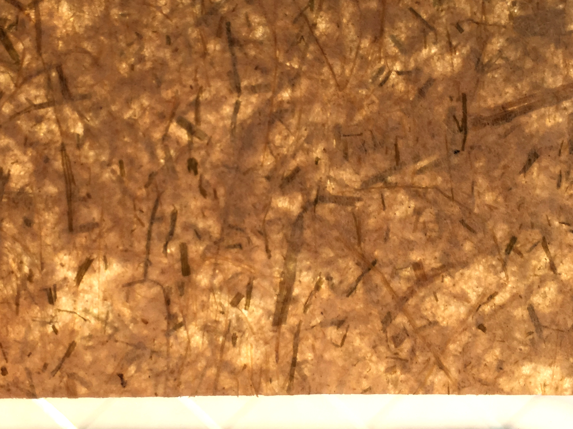 Hemp with Zizania latifolia paper. hit the sunlight. Traditional papermaking technology in Japan.